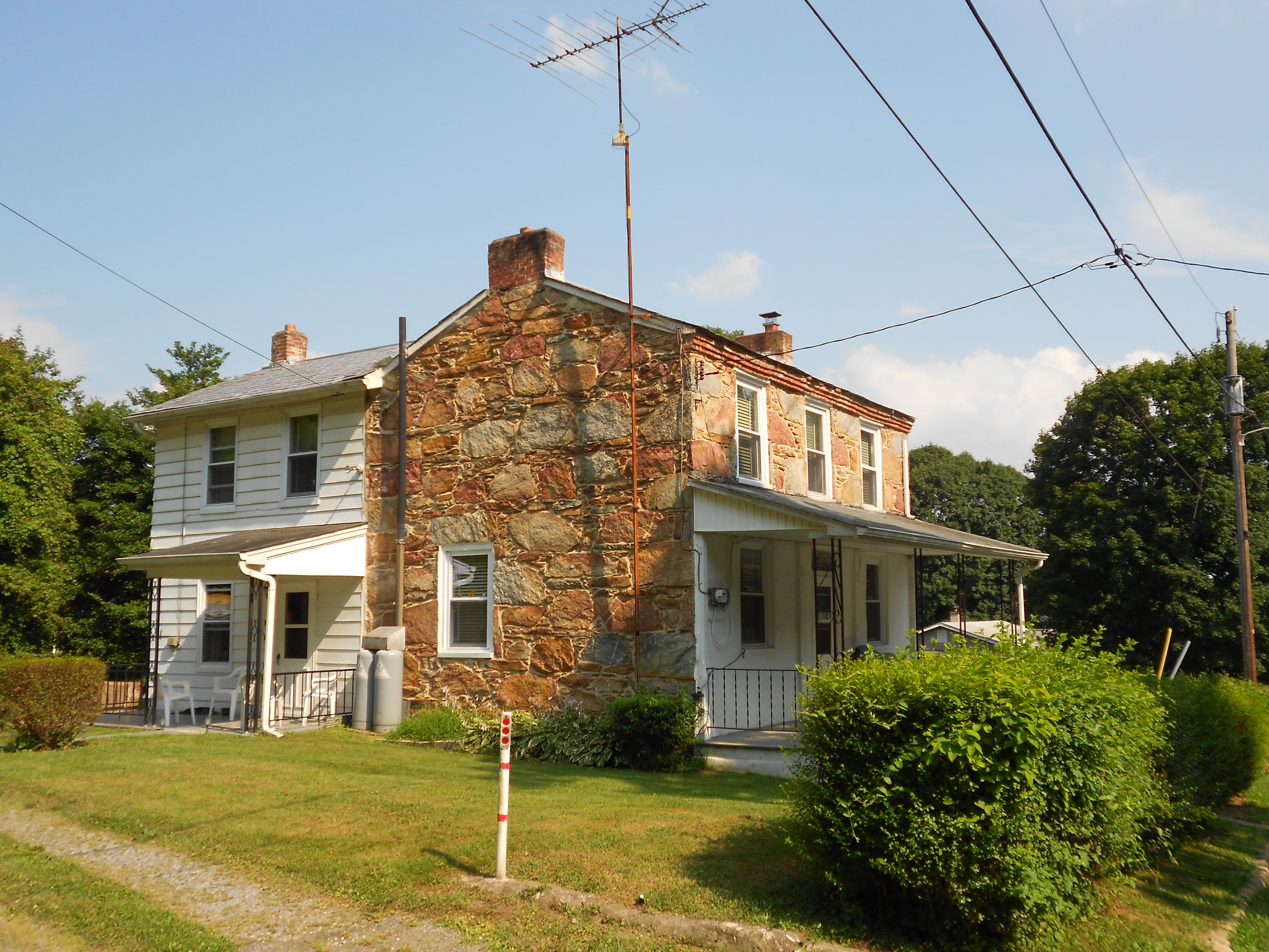 Coulsontown Cottages Historic District, listed on the NRHP on January 31, 1985 . Located on Ridge Road and Main, east of Delta, in Peach Bottom Township. To find it you'll likely have to go to Delta and follow the signs: north on Main, then east, then turn south at the church, its off to the left sorta hidden. Built by Welsh slatesplitters about 1850.